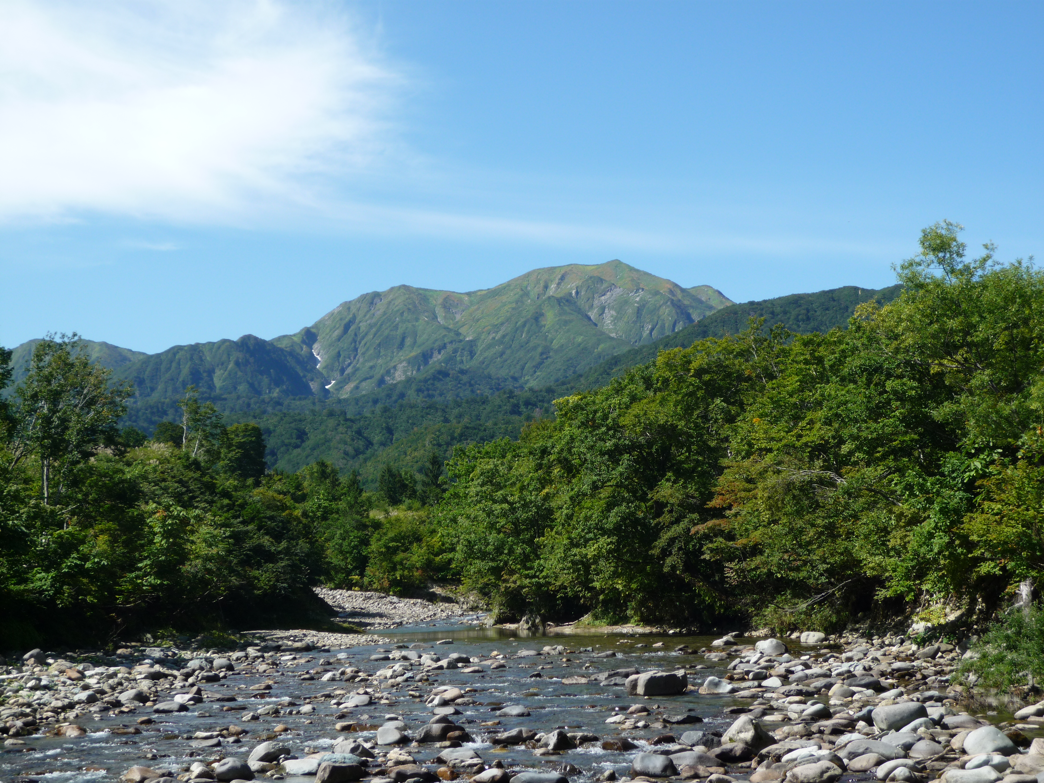 Mount Echigo-Komagatake as seen from the ENE in Niigata Prefecture, Japan. Taken from Ginzandaira.